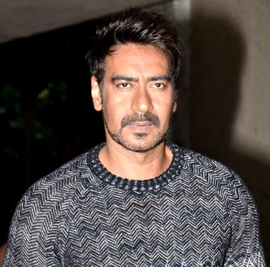 Ajay Devgn snapped at 'Action Jackson' photoshoot